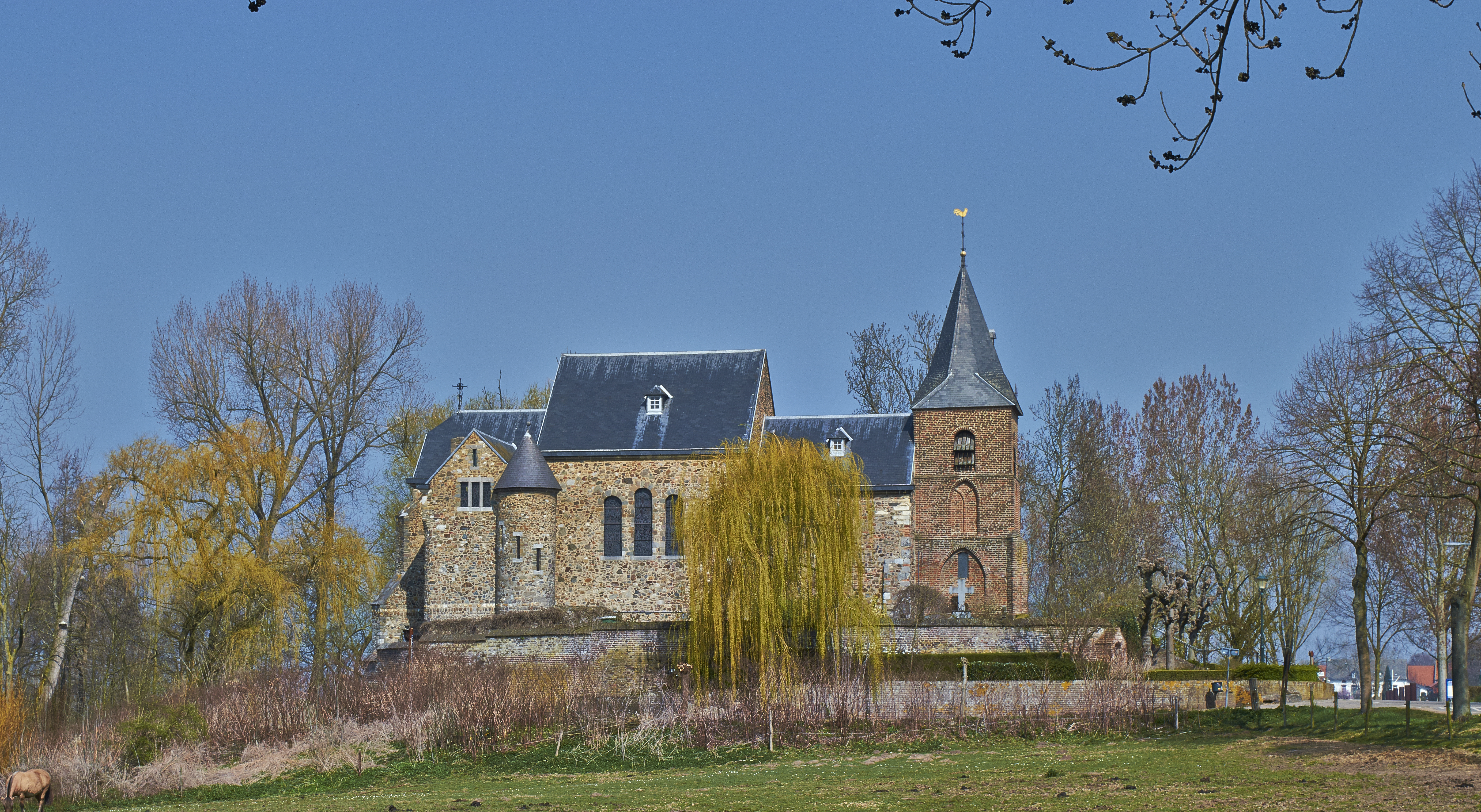 Dionysius- or Rozenkerkje. The Roman Catholic Church of St. Dionysius of Paris was built in the 11th century on a spit of land on the river, which had previously been a fortress. This church was partly built with stones from Roman buildings. Of the original Romanesque church still remain the nave and the chancel. The original west tower collapsed in the 16th century century and was then replaced by a new brick tower, which now was built on the east side. In 1916-1918 the church was restored and increased by PJH Cuypers. In the church is a baptismal font in the Romanesque style.